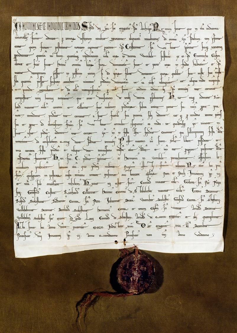 The oldest wine sale document in germany